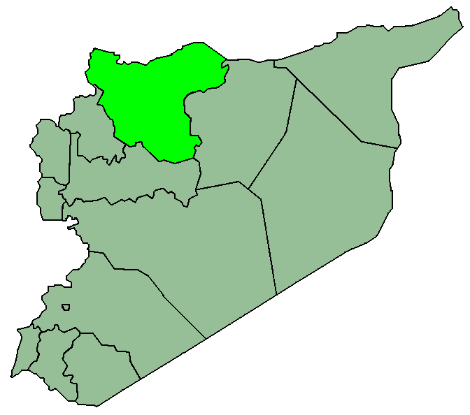 Location map of the Governorate of Aleppo — in northern Syria. The city and district of Aleppo are within the Aleppo Governorate.